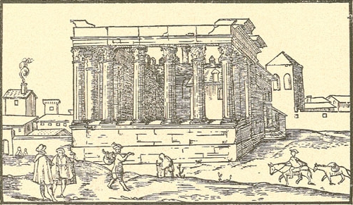 Drawing of the Roman Temple of Évora, in Portugal. It was copied from a woodcut, probably of the XIV century, and was part of a collection of the belgian representantive in Lisboa, Raymond Leghait. This image was originally published in the Feira da Ladra magazine No. 1, of 1929, and scanned by the Hemeroteca Municipal de Lisboa.